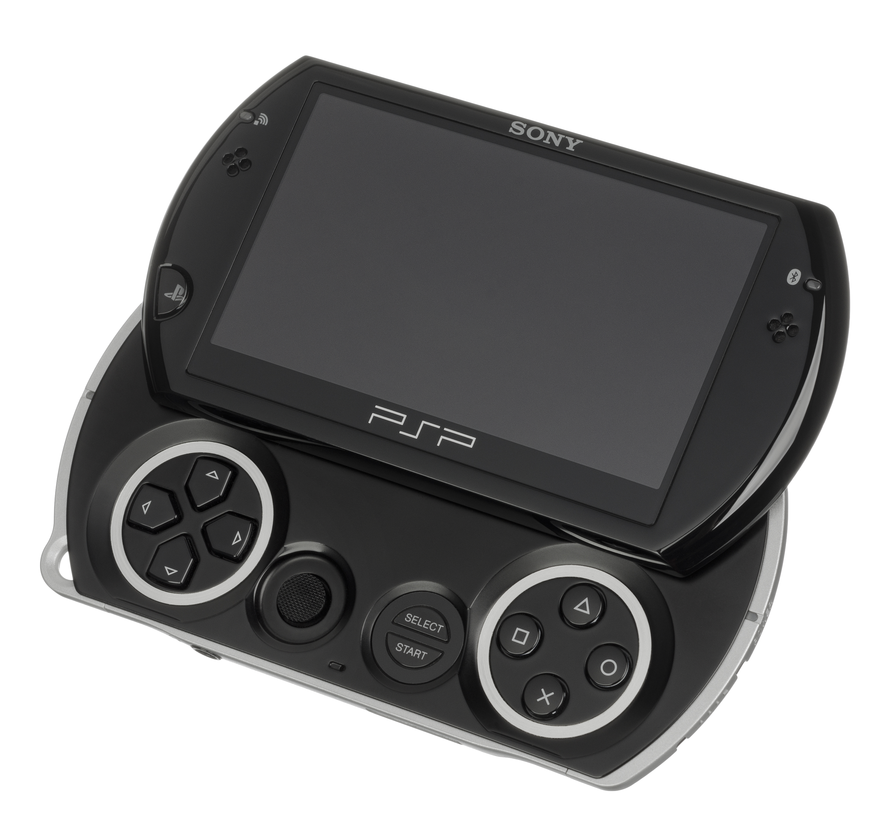 The PSP Go, an alternate model of the PlayStation Portable system from Sony. Released in 2009, it was a UMD-less version of the PSP, relying on digital-only versions of games. It has 16GB of internal storage and can be expanded with a proprietary memory card.